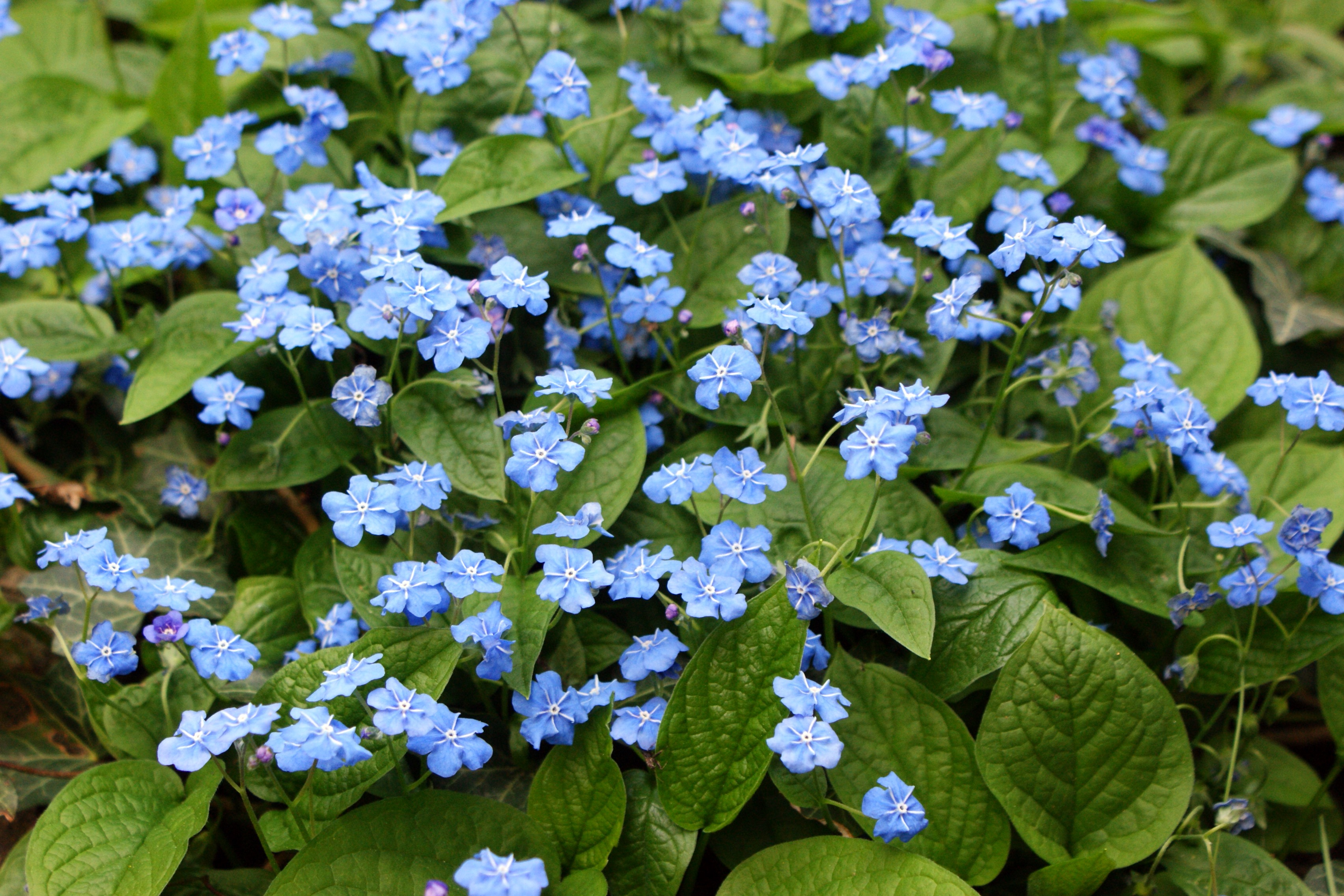 Omphalodes verna